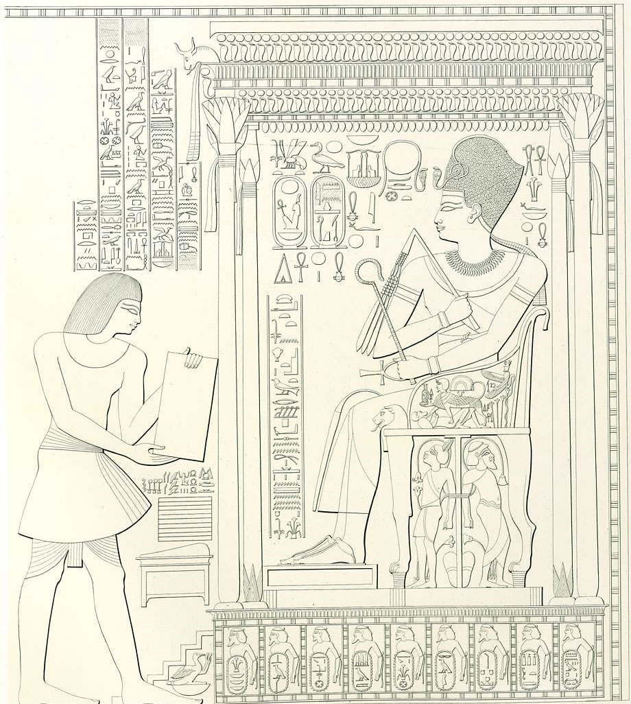 Scene from the Theban tomb of Khaemhat, TT57